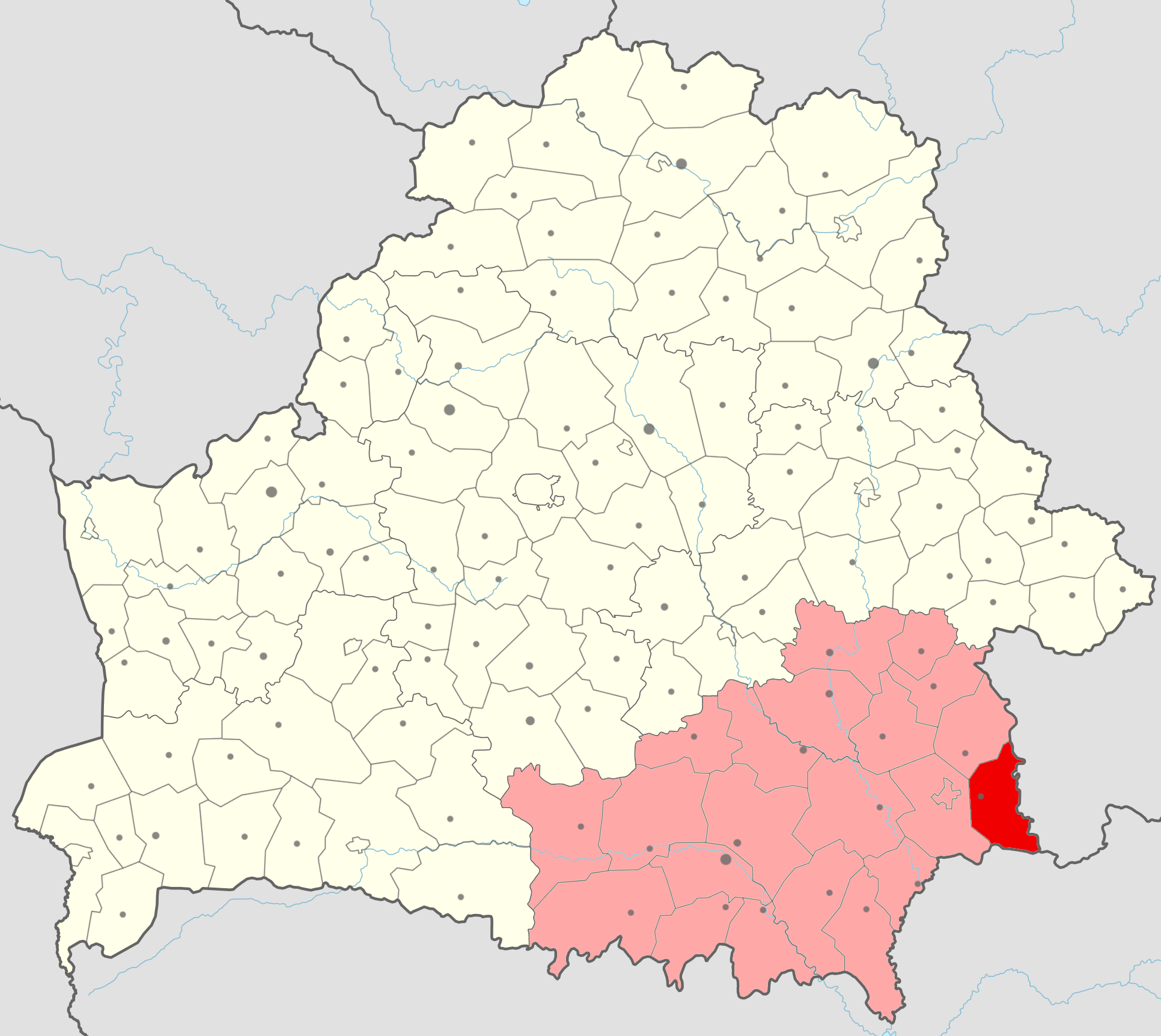 Location of Dobruški rajon (red) in Homieĺskaja voblasć (light red) in Belarus.